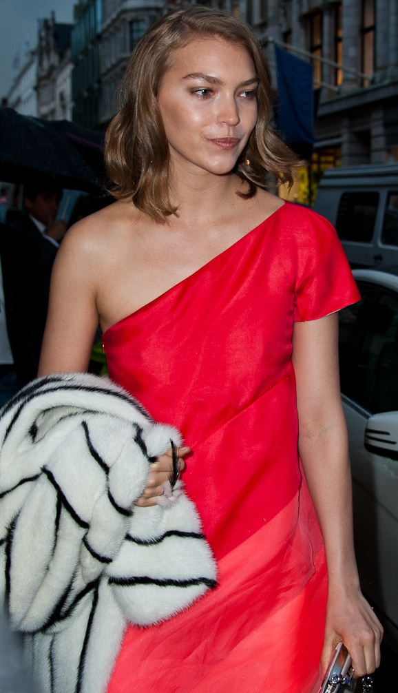 Arizona Muse at a London event for the opening of a Fendi store on May 1, 2014. This is a crop of the original